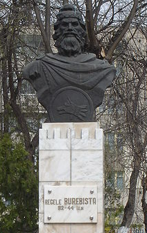 A cropped image of Burebista's statue in Calarasi. The full uncropped image can be found at File:Burebista statue in Calarasi.jpg